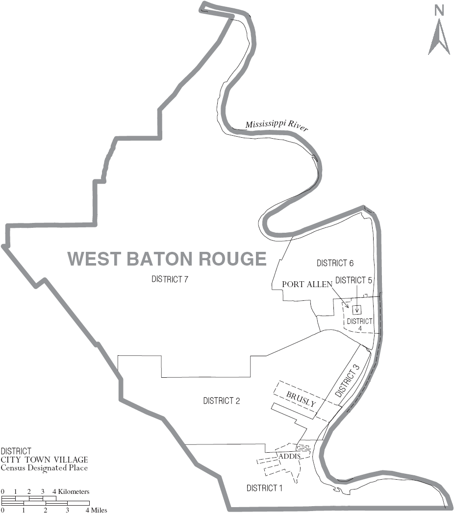 Map of West_Baton_Rouge Parish, Louisiana, United States with municipal and district boundaries